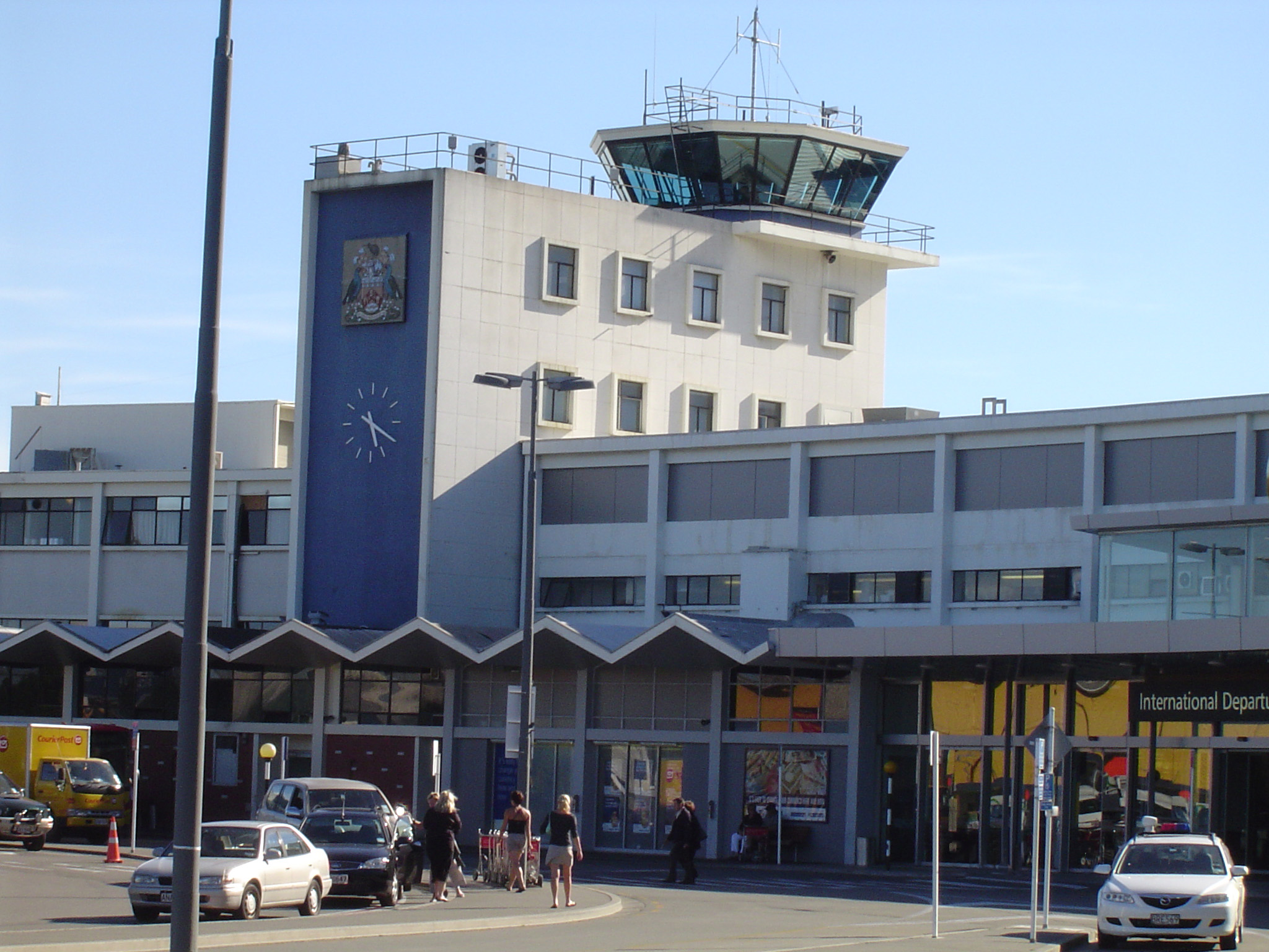 Front view of Christchurch International Airport, New Zealand